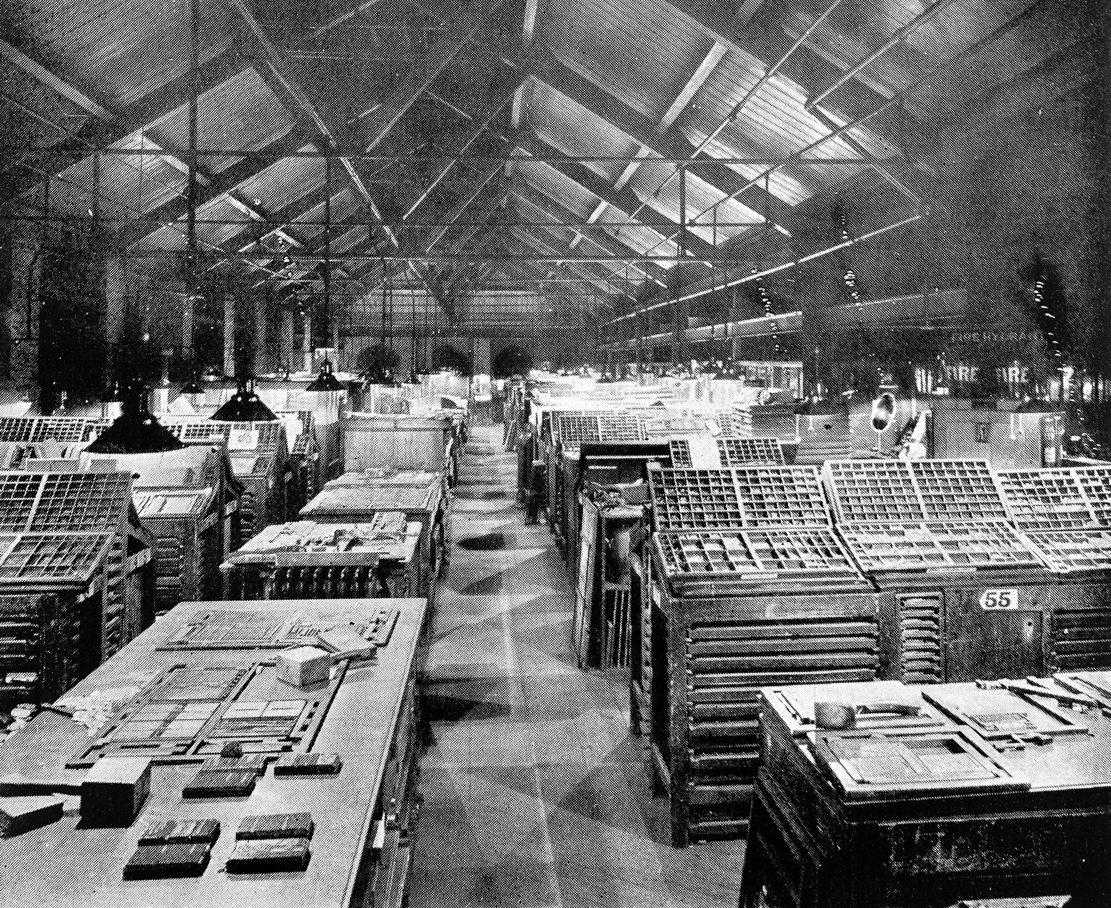 Good lighting in composing room in large printing works. Adjustable seats in inspection room (Tan-sad.). Wellcome Images Keywords: Public Health